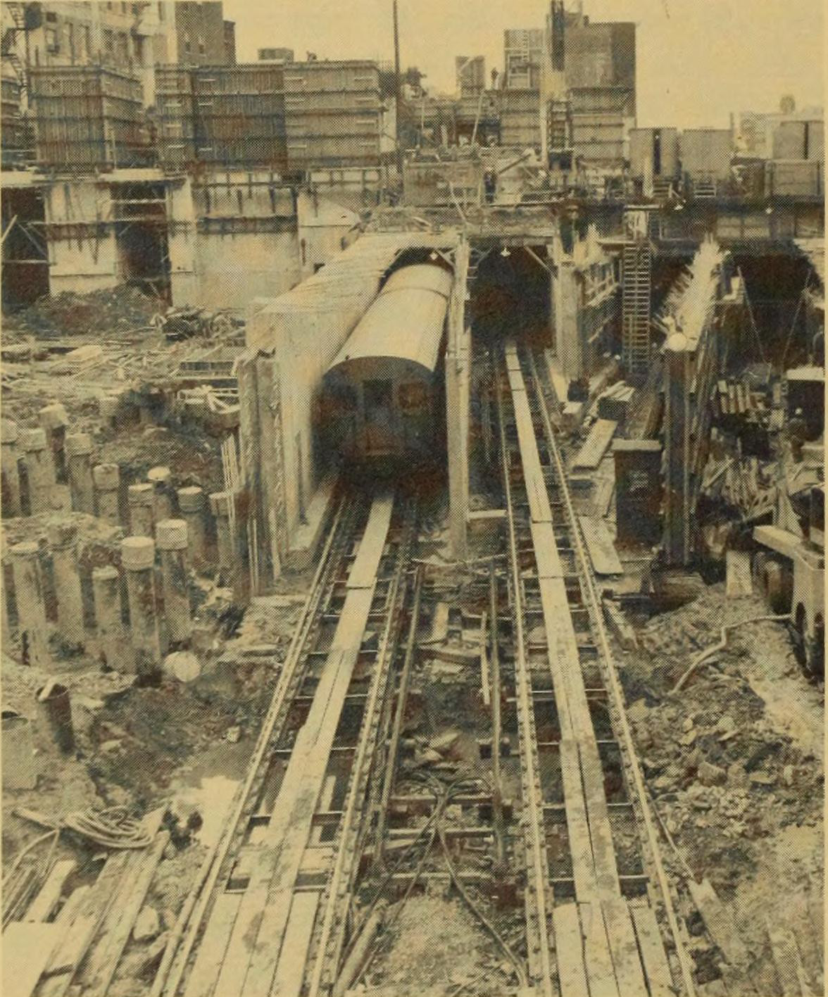 A northbound Orange Line passes the construction of the South Cove Tunnel in March 1971. The tunnel and a station shell were completed during urban renewal efforts in the early 1970s, but not opened until 1987 with the completion of the Southwest Corridor.